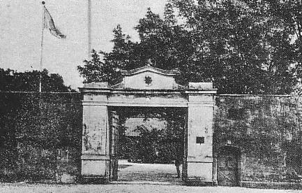 Taihoku(Taipei) Prison in Meiji era